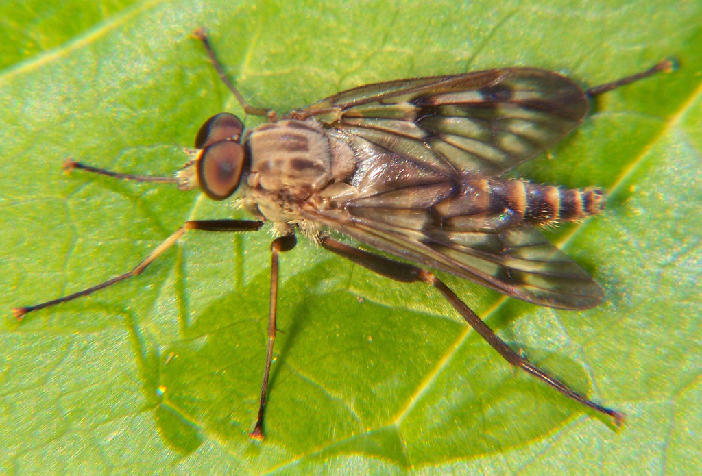 Adult fly, Rhagio mystaceus, commonly called "snipe fly" or "downlooker fly", after its habit of perching head-down on tree trunks.